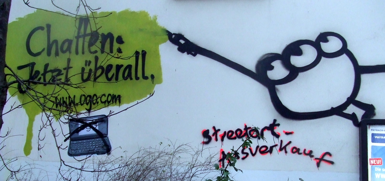 commercial ogo graffiti with critical comment